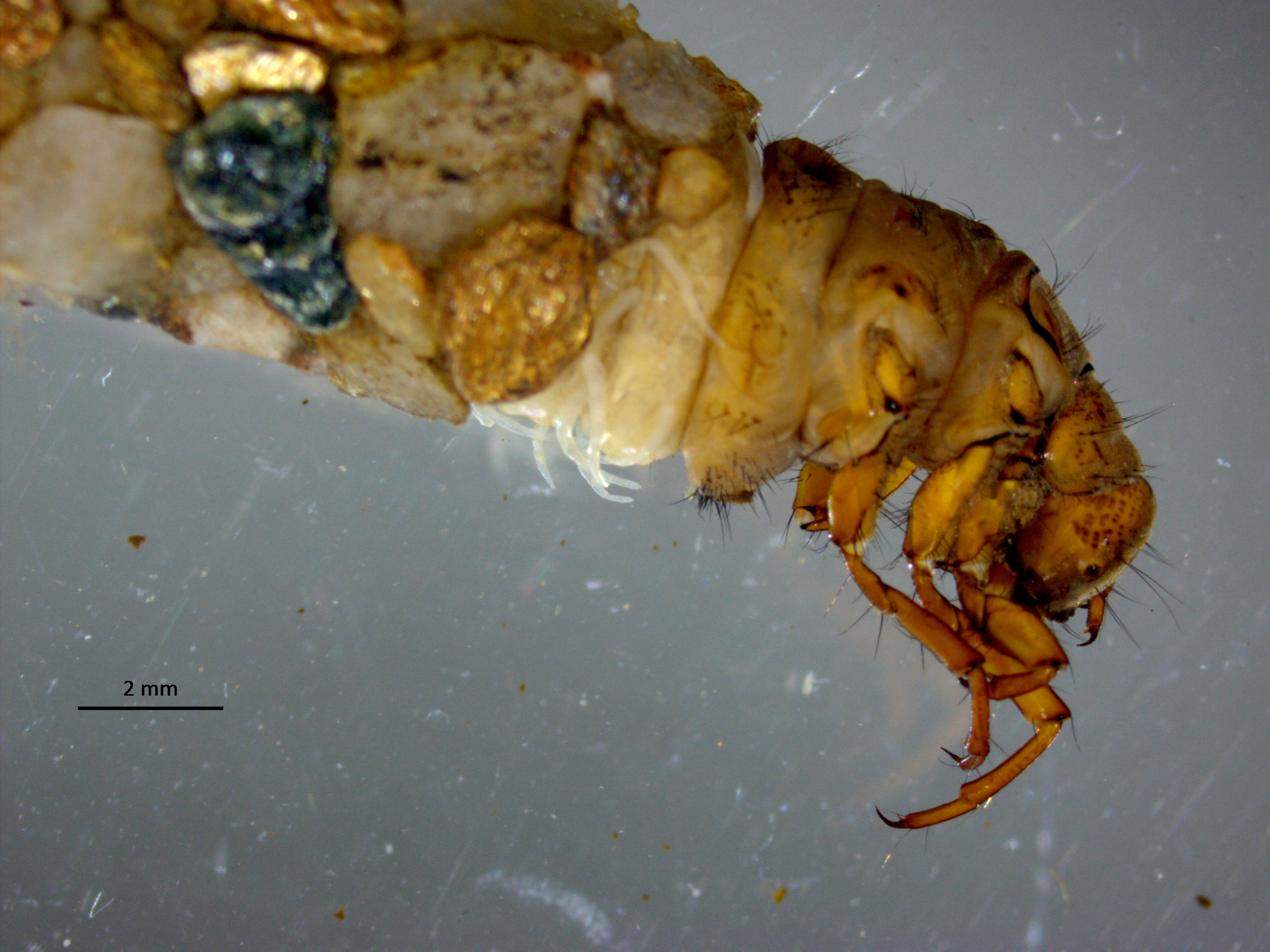 Halesus digitatus larva from Erma/Jerma river (SE Serbia). Српски (ћирилица): Ларва Halesus digitatus из Јерме (општина Сурдулица, ЈИ Србија).